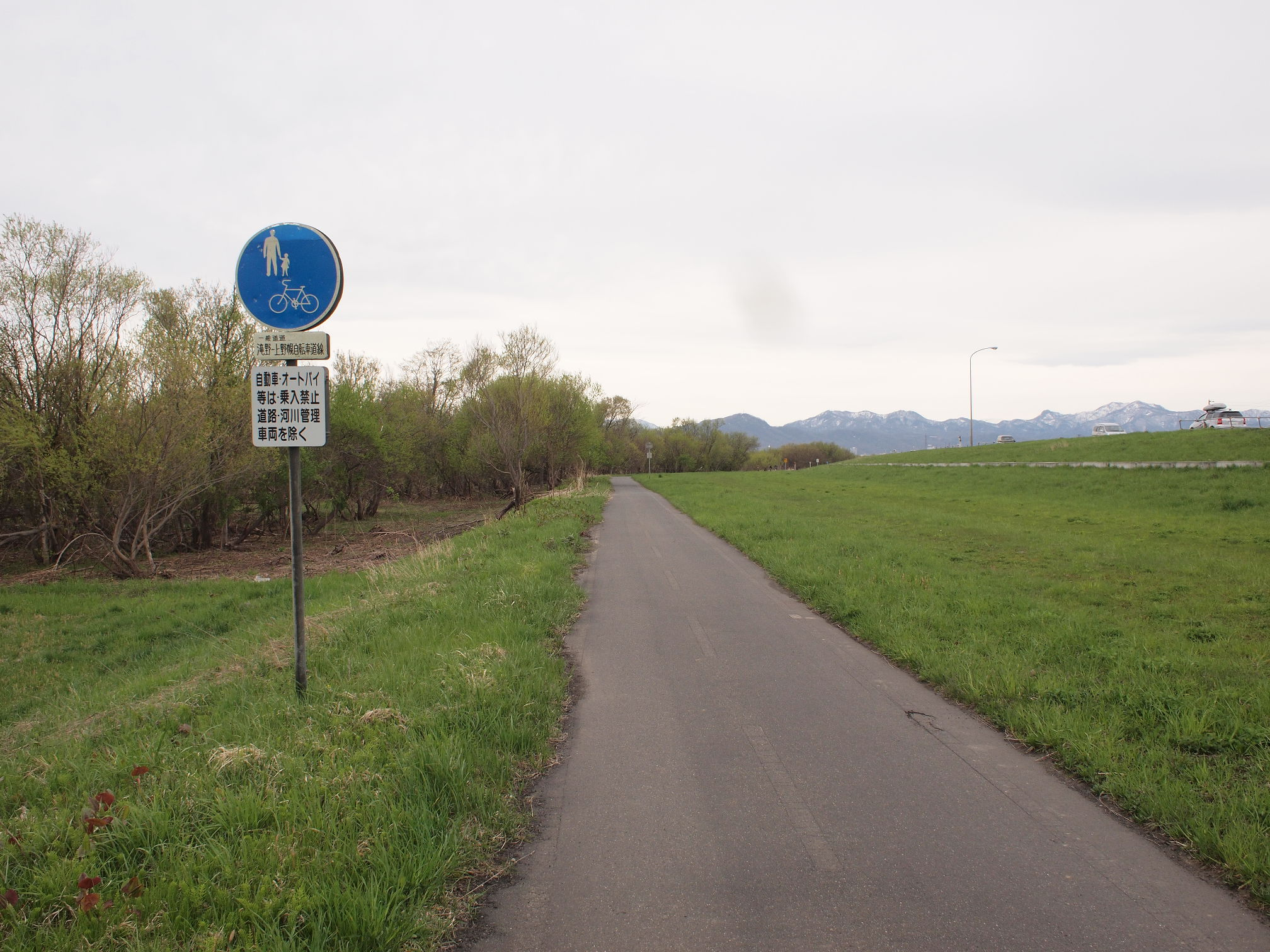 Hokkaido Prefectual Road No.814, Sapporo, Hokkaido, Japan